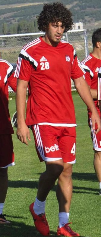 Ahmet Şahbaz'ı görüntüledik